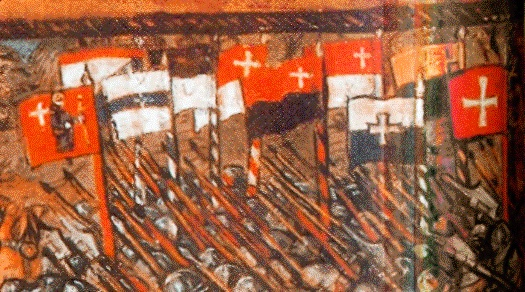 Depiction of the Swiss confederate flags at the battle of Nancy (1477) Detail of the plate depicting the battle in the Luzerner Chronik of Diebold Schilling (1513). All flags of the Eight Cantons are shown, but the flags of Berne and Uri omit the heraldic animal, showing only the cantonal colours. In addition, the flags of Fribourg and Solothurn are shown, at the time not yet full members, who would join the confederacy in the aftermath of this battle, in 1481. The flag of the city of Basel is shown separately, behind the confederate flags (not included in this detail). Each flag has the white confederate cross attached, those of Schwyz, Lucerne and Zug in the center, the others in the top corner at the host, except for Glarus, where it is in the top corner at the fly (apparently for reasons of space), and for Zürich, which is partially obscured behind Zug and Glarus, so that no cross is visible (but the red Schwenkel at the top of the flag of Zürich is visible).